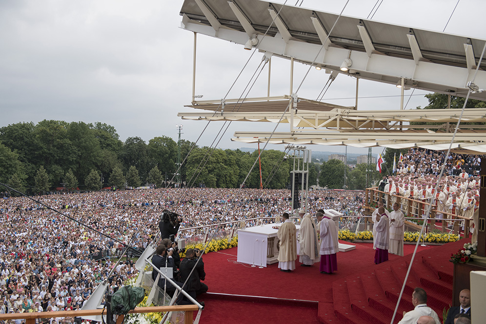 28.07.2016, Częstochowa | W trzecim dniu Światowych Dni Młodzieży premier Beata Szydło uczestniczy we mszy świętej celebrowanej na Wałach Jasnogórskich w związku z 1050. rocznicą Chrztu Polski. Fot. P. Tracz / KPRM